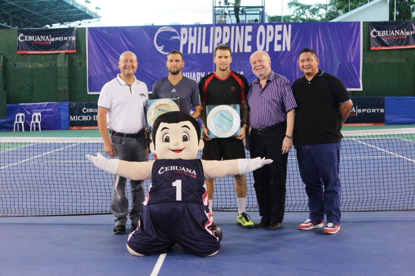 ATP Challenger Tour